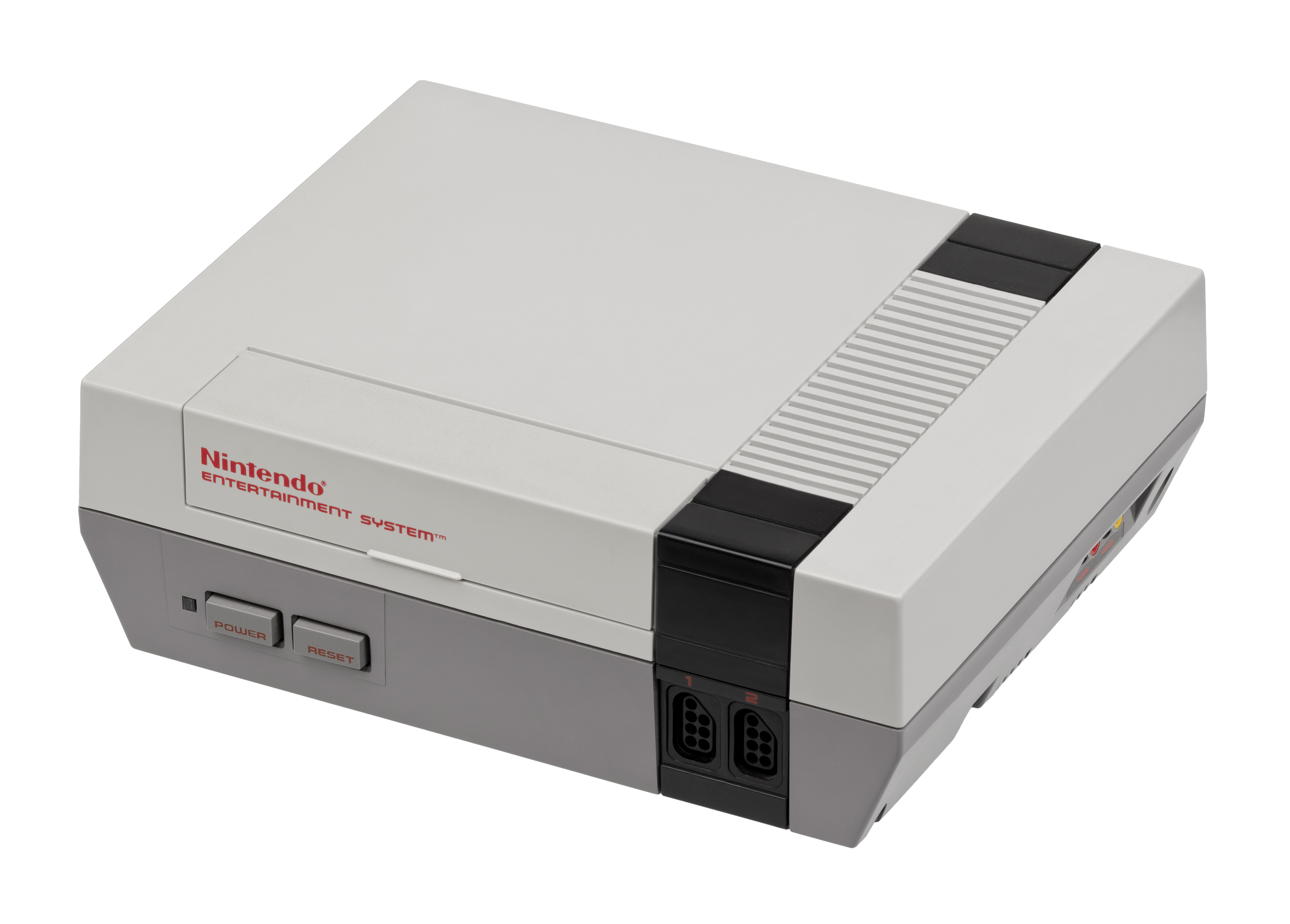 The Nintendo Entertainment System video game console, also known as the NES. Released in 1985, it is the first game console released in America by Nintendo. The NES is a slightly modified version of the Japanese Famicom console with a new design and features, including composite video out and detachable controllers. The console was a huge success, becoming the number-one selling console for many regions with over 60 million units sold. It would remain Nintendo's highest-selling console until the release of the Nintendo Wii.